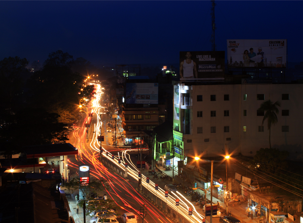 Jorhat is the is 5th largest city in Assam, India